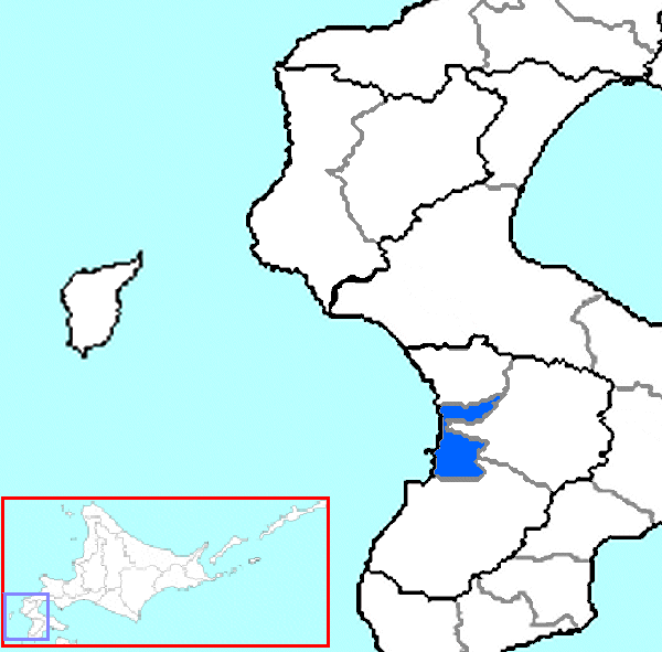 The location of Assabu in Hiyama Subprefecture, Hokkaido Prefecture, Japan.